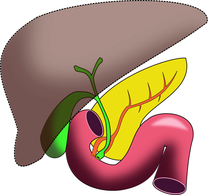 unlabeled view of the biliary tree